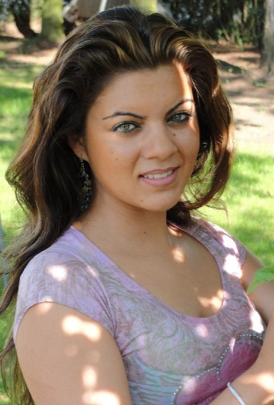 Sarah Kreuz, German singer, won second place at DSDS 2009 Germany, born 1989-07-27 in Bergheim, Germany